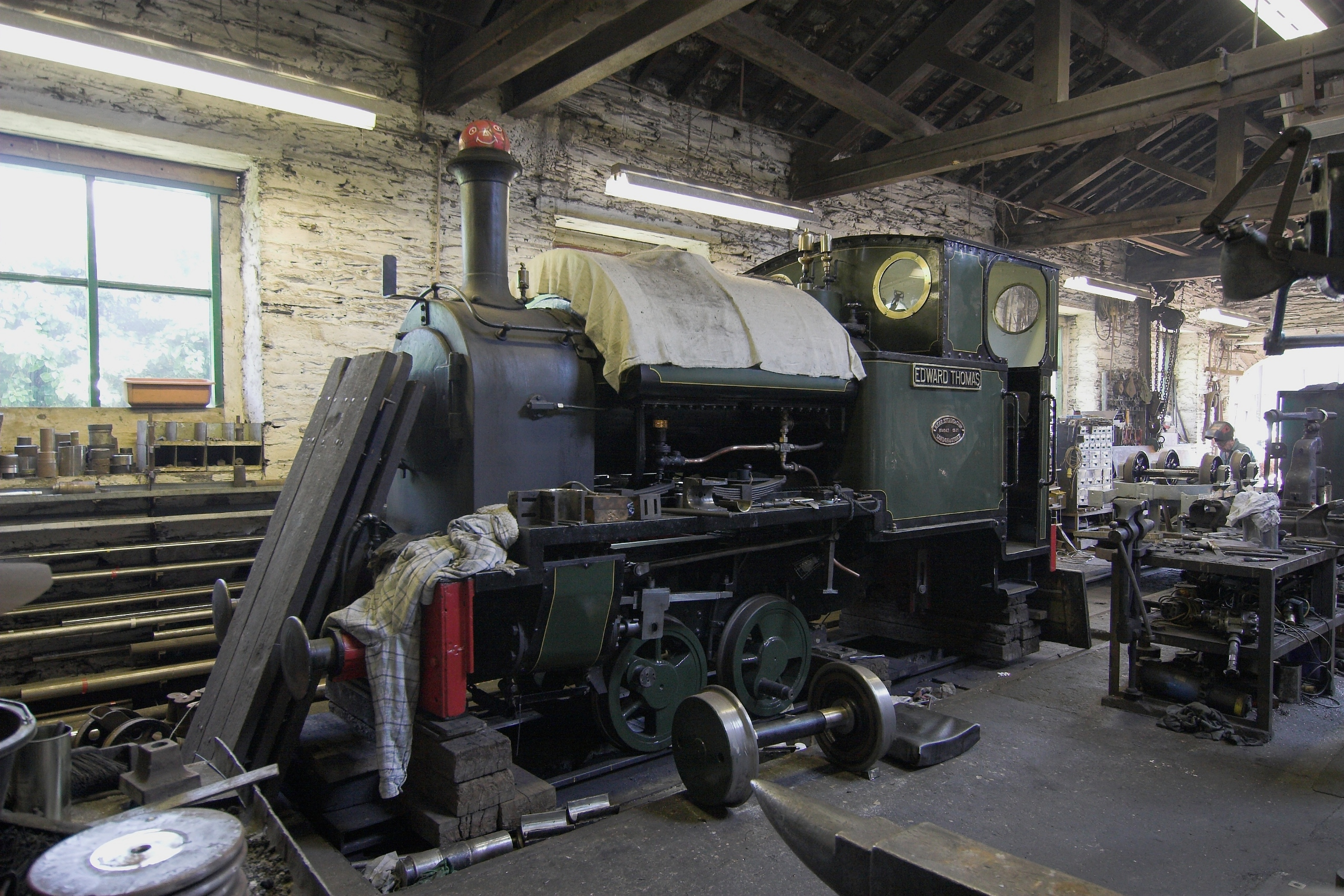 Talyllyn Railway No. 4 Edward Thomas inside Pendre workshops, propped up with axles removed for overhaul.